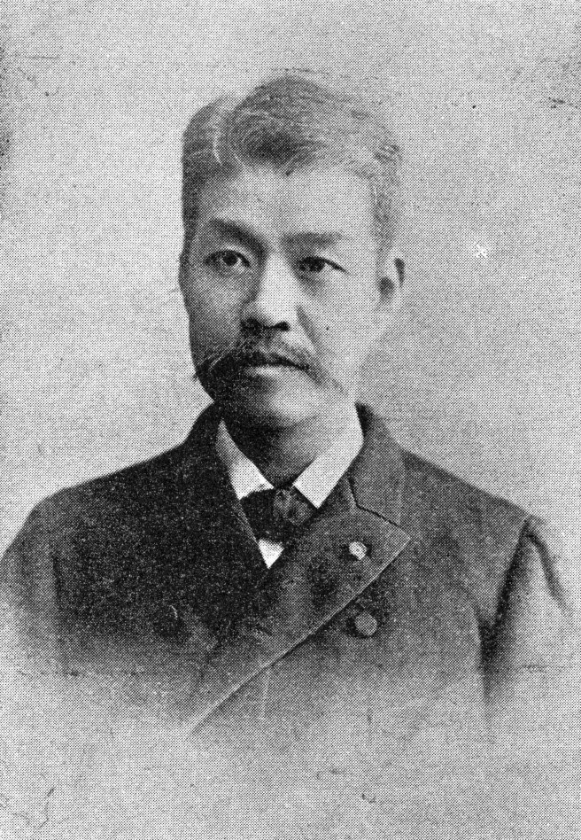 Baron Ozaki_Saburō, the Court Councilor